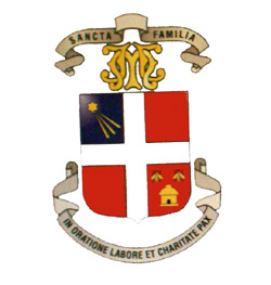 Emblem of the Brothers of the Holy Family from Belley, laical congregation